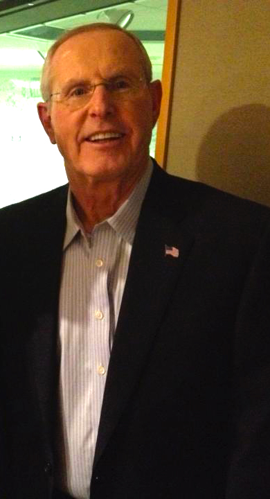 Tom Coughlin during an appearance on "The Catholic Guy"